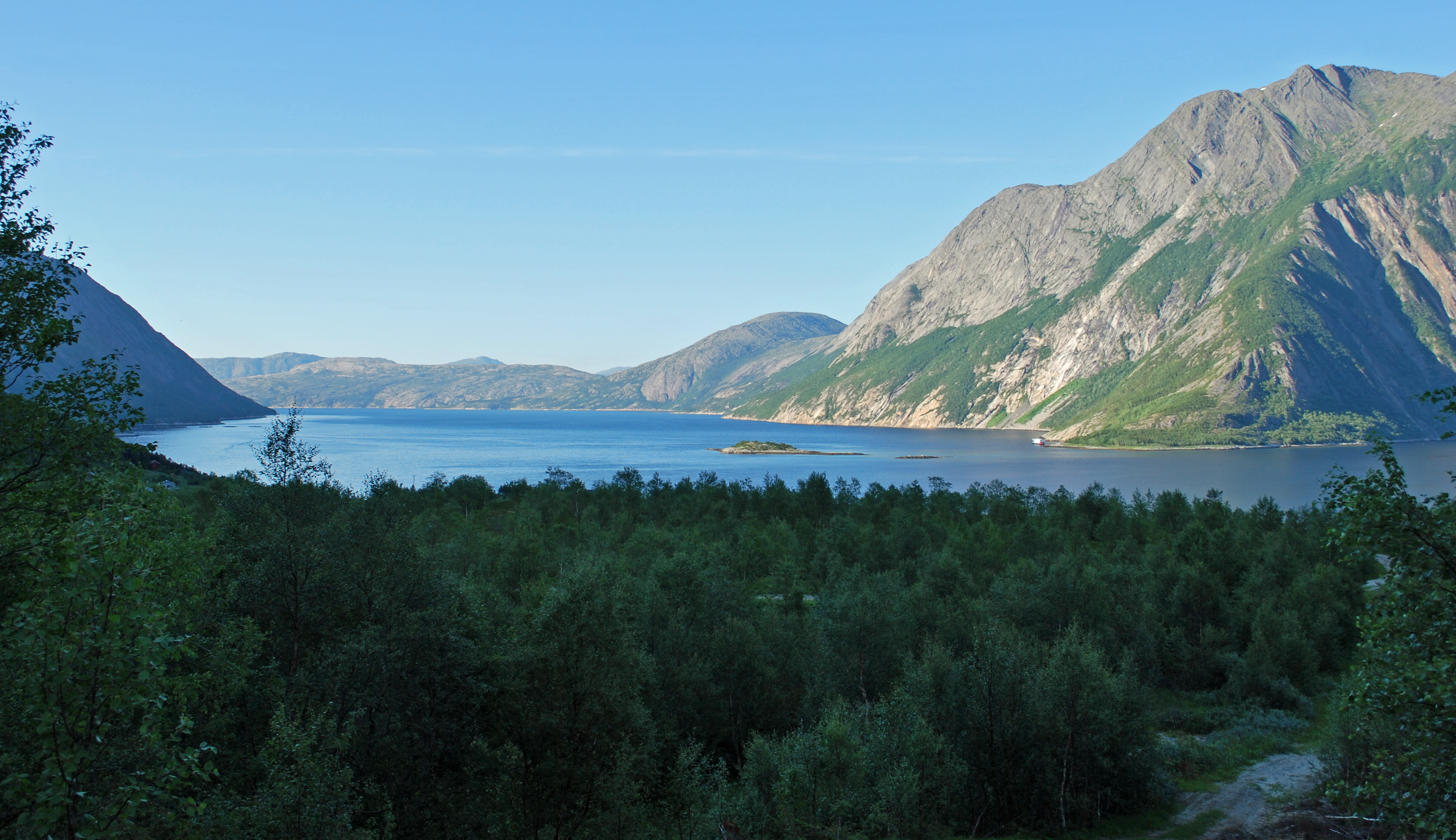 Tysfjorden seen from the village of Musken